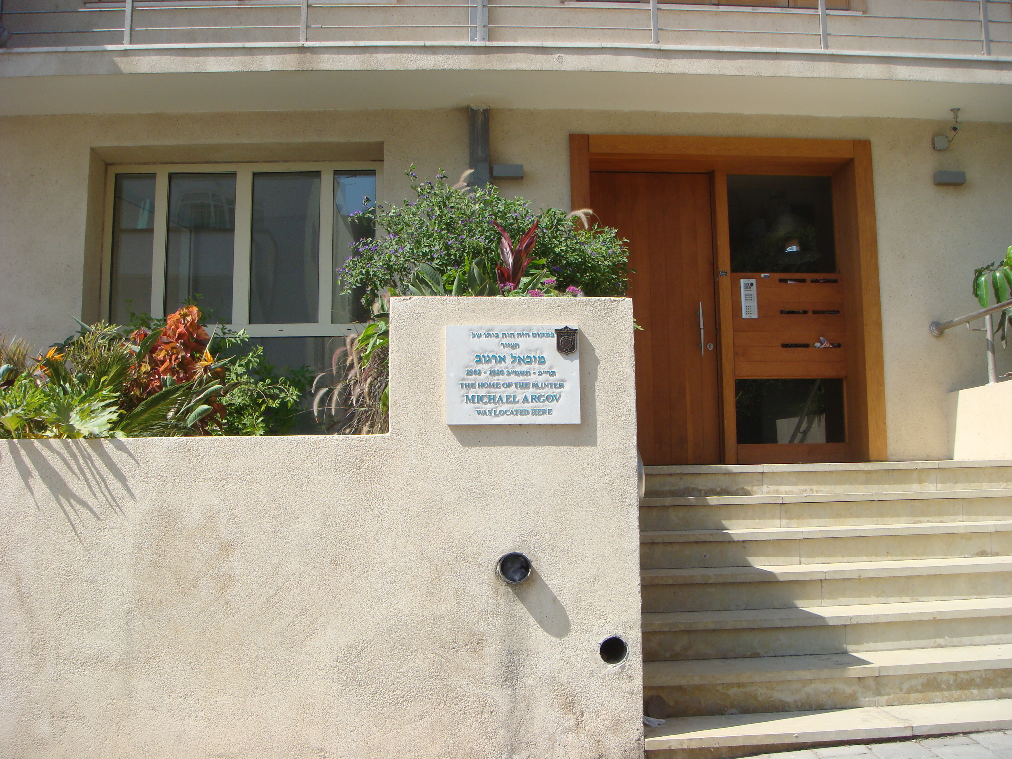 The entrance to the house of the late Israeli painter Michael Argov in Tel Aviv. Today the building is being used by India\'s embassy in Israel.